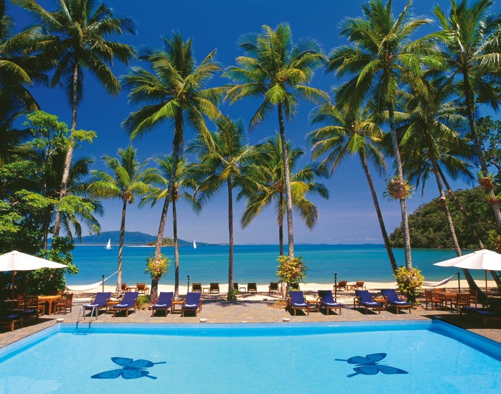 The iconic Dunk Island butterfly pool